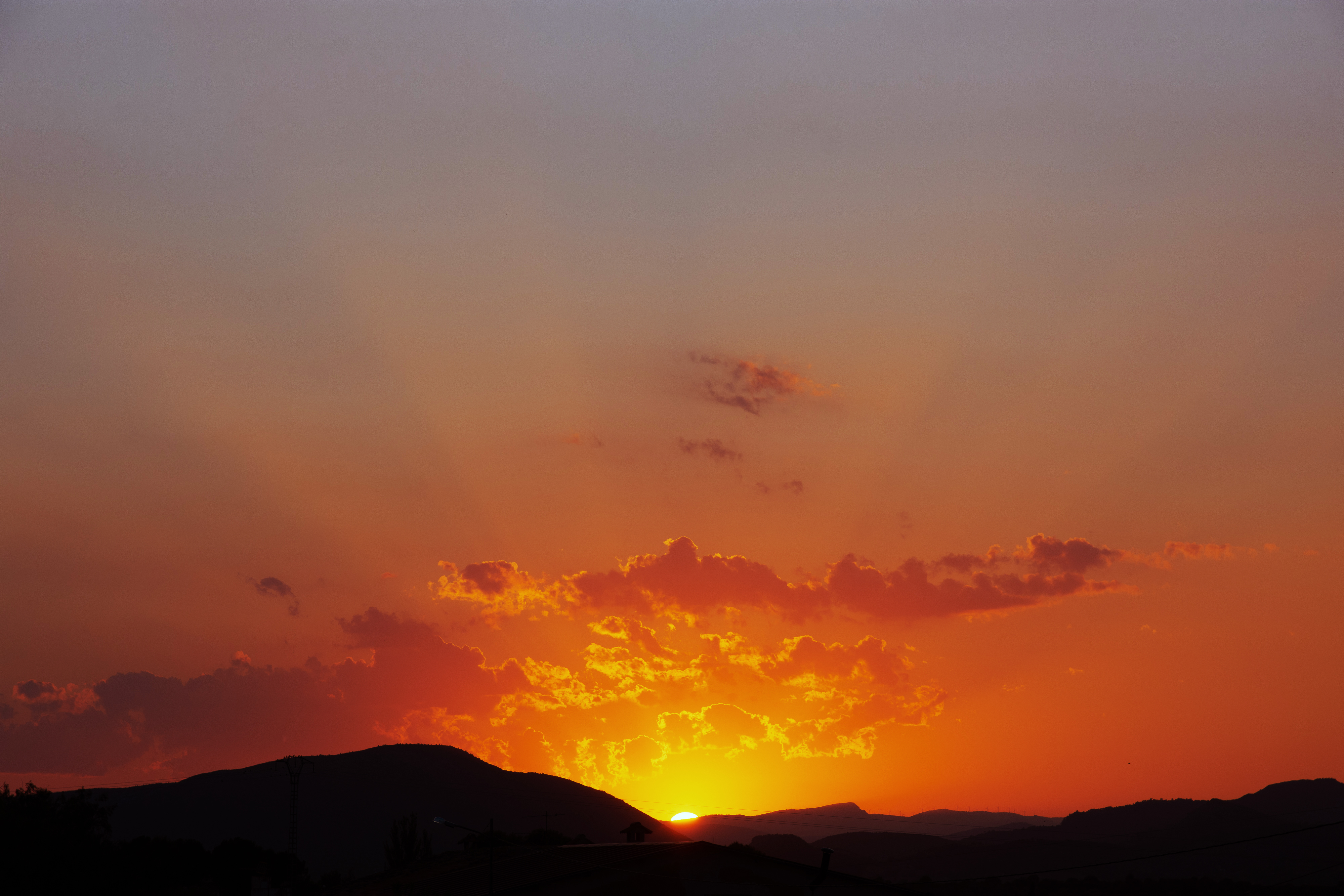 Sunset in Chulilla.